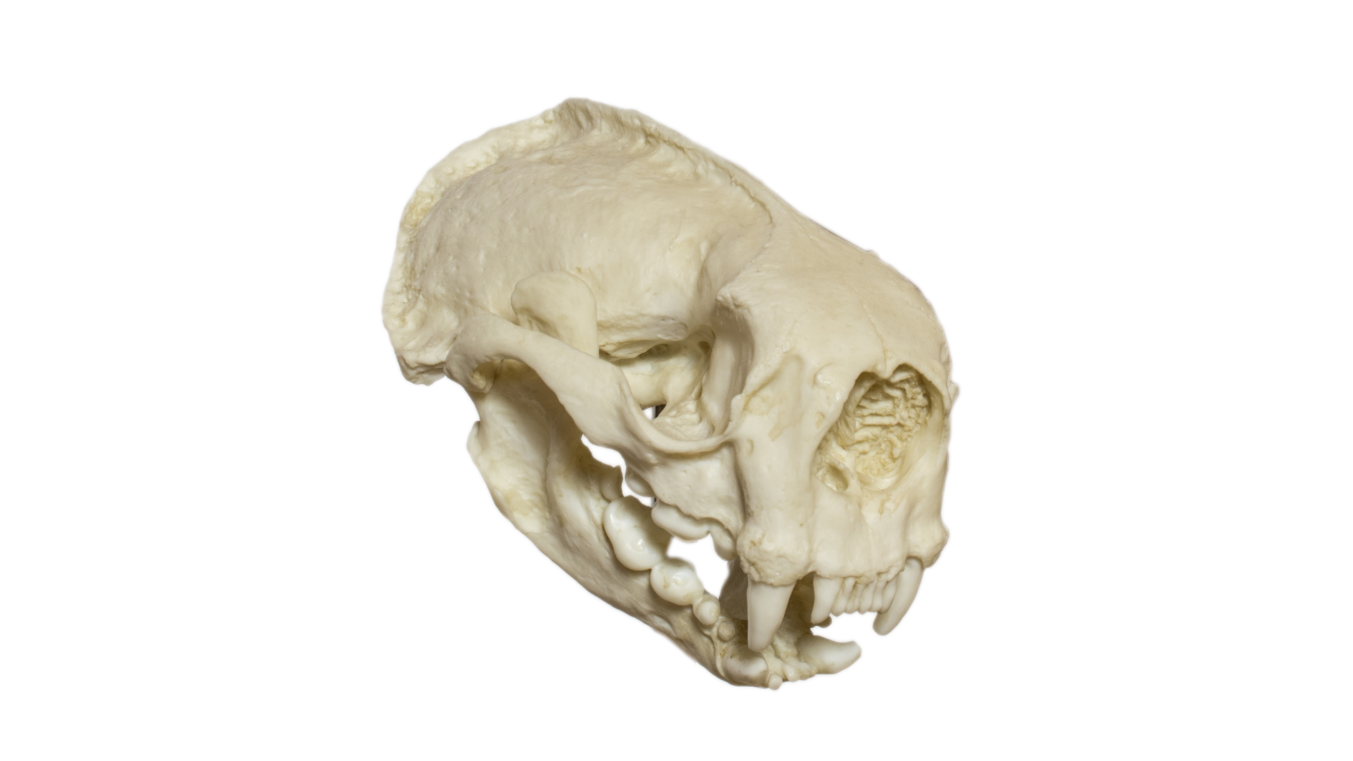 Sea otter. Skull. Replica.